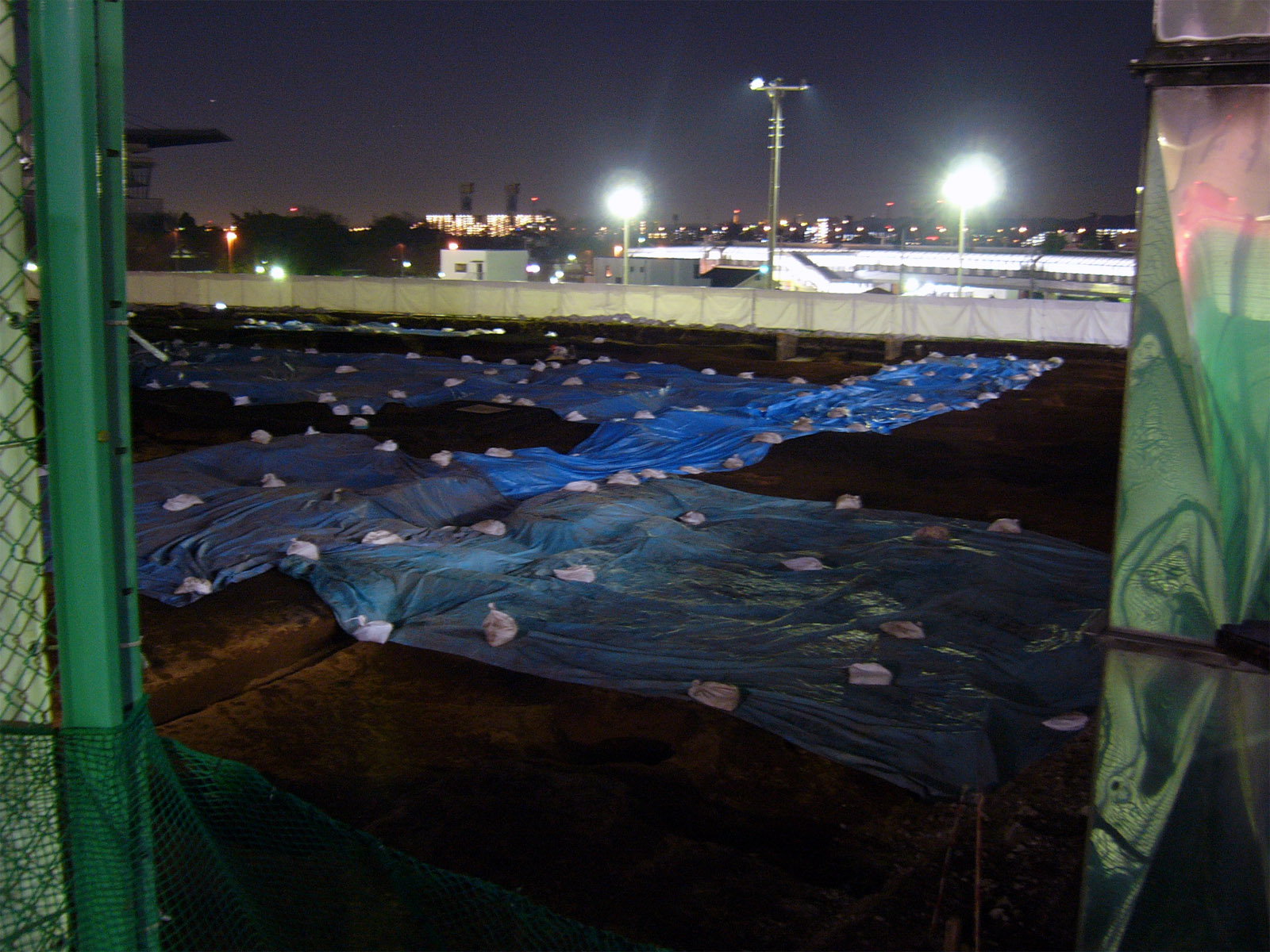 Ito-Yokado Fuchu-Ten Tokyo Supermarket parking remains ruins 東京都府中市のイトーヨーカ堂府中店の元立体駐車場跡の遺跡